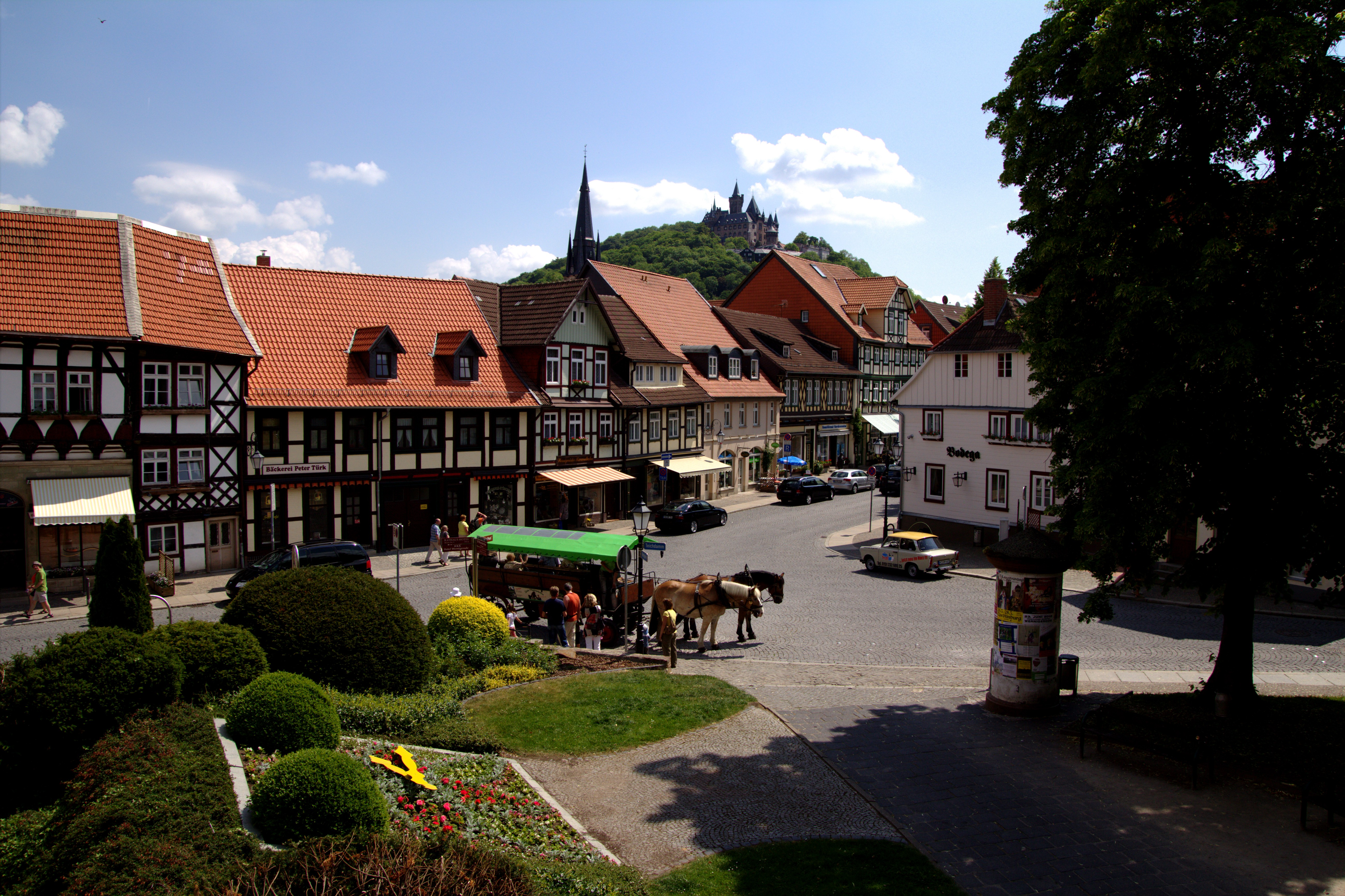 The Marktstrasse in Wernigerode, behind the famous town hall.